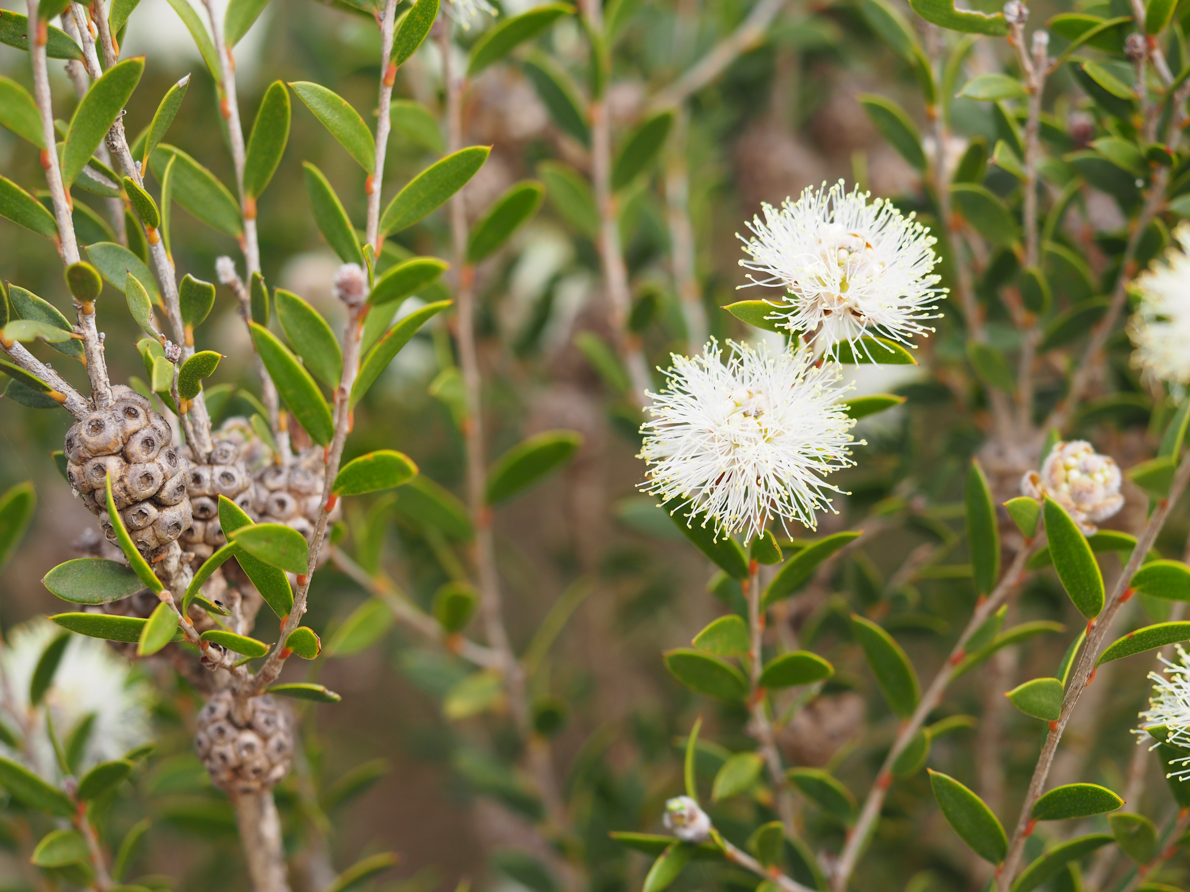 Melaleuca hnatiukii at the type location on the Burdett Road